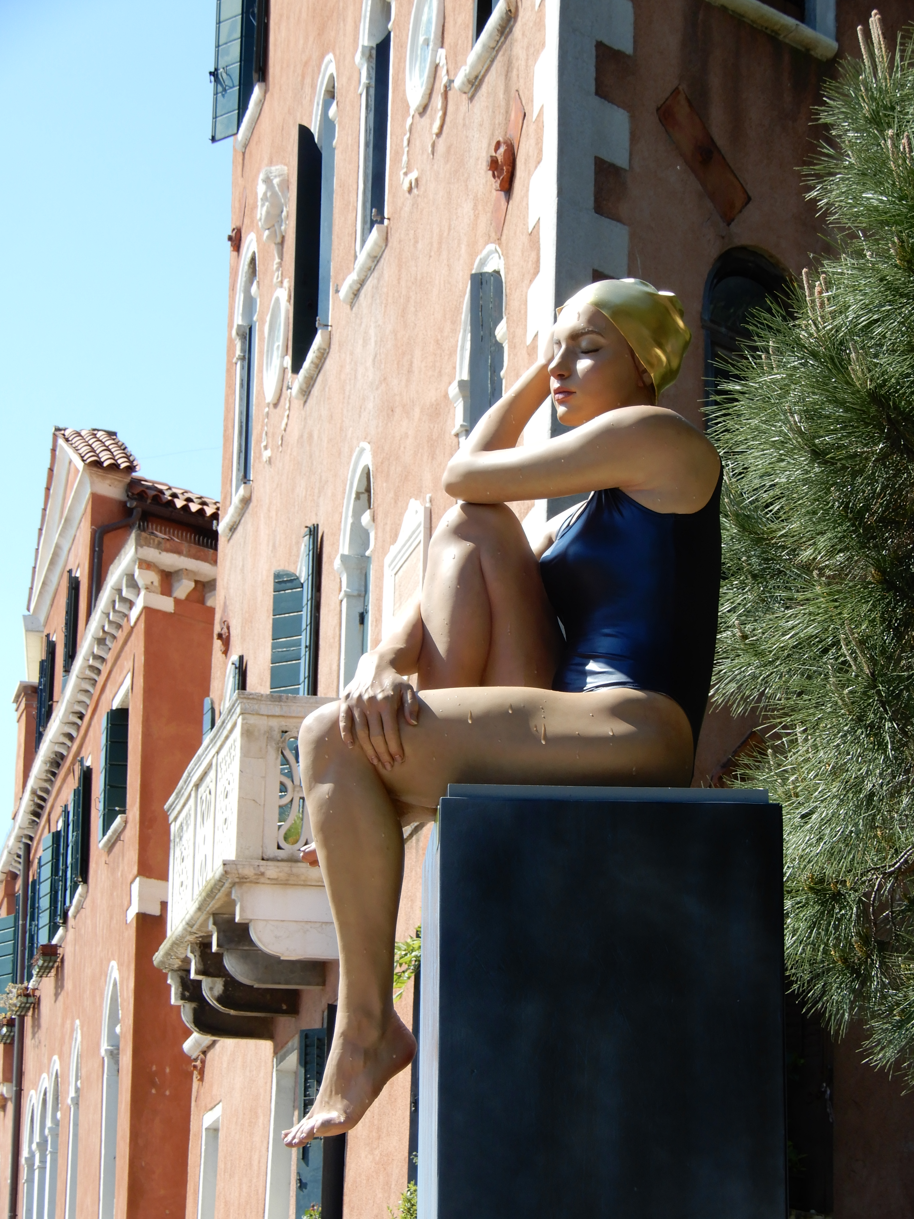 Hyperrealistic sculpture by one of the founders of the genre of Hyperrealism (visual arts), Carole A. Feuerman, measuring 53” x 22” x 16” (134.62” x 55.88” x 40.64”) entitled “The Midpoint” at her solo exhibition at the Giardino della Marinaressa by the 2017 Venice Biennale. Summary of work details below: Title: The Midpoint Year: 2017 Medium: Oil on Resin Dimensions (hwd): 53” x 22” x 16” (134.62 x 55.88 x 40.64 cm)